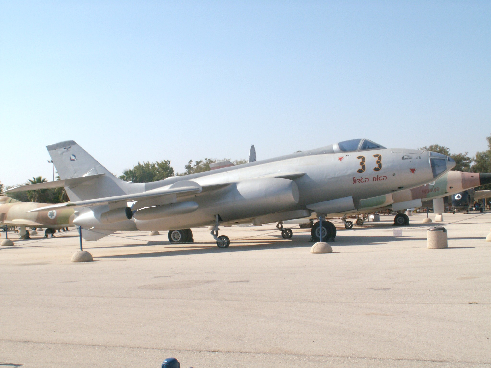 Sud Ouest Vautour 33 "Big Brother" at the Israeli Air Force Museum in Hatzerim, December 20, 2006